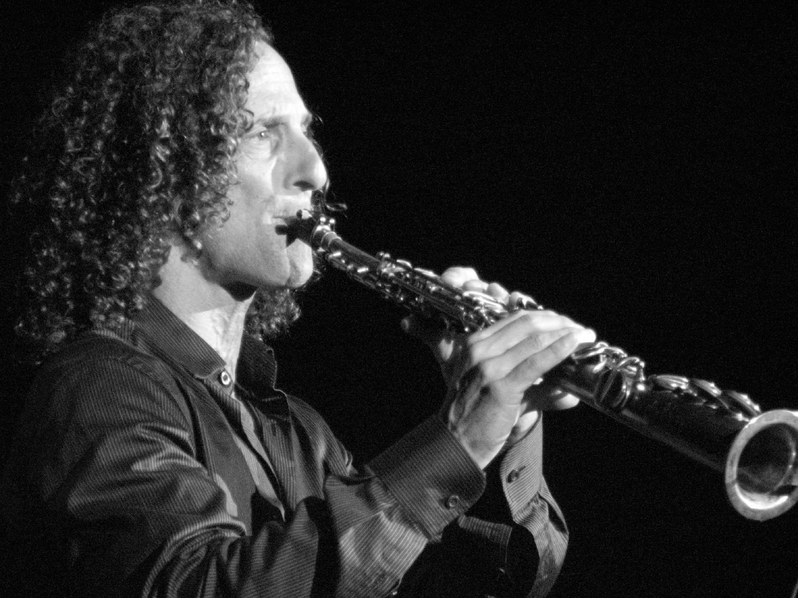 Saxophonist Kenny G